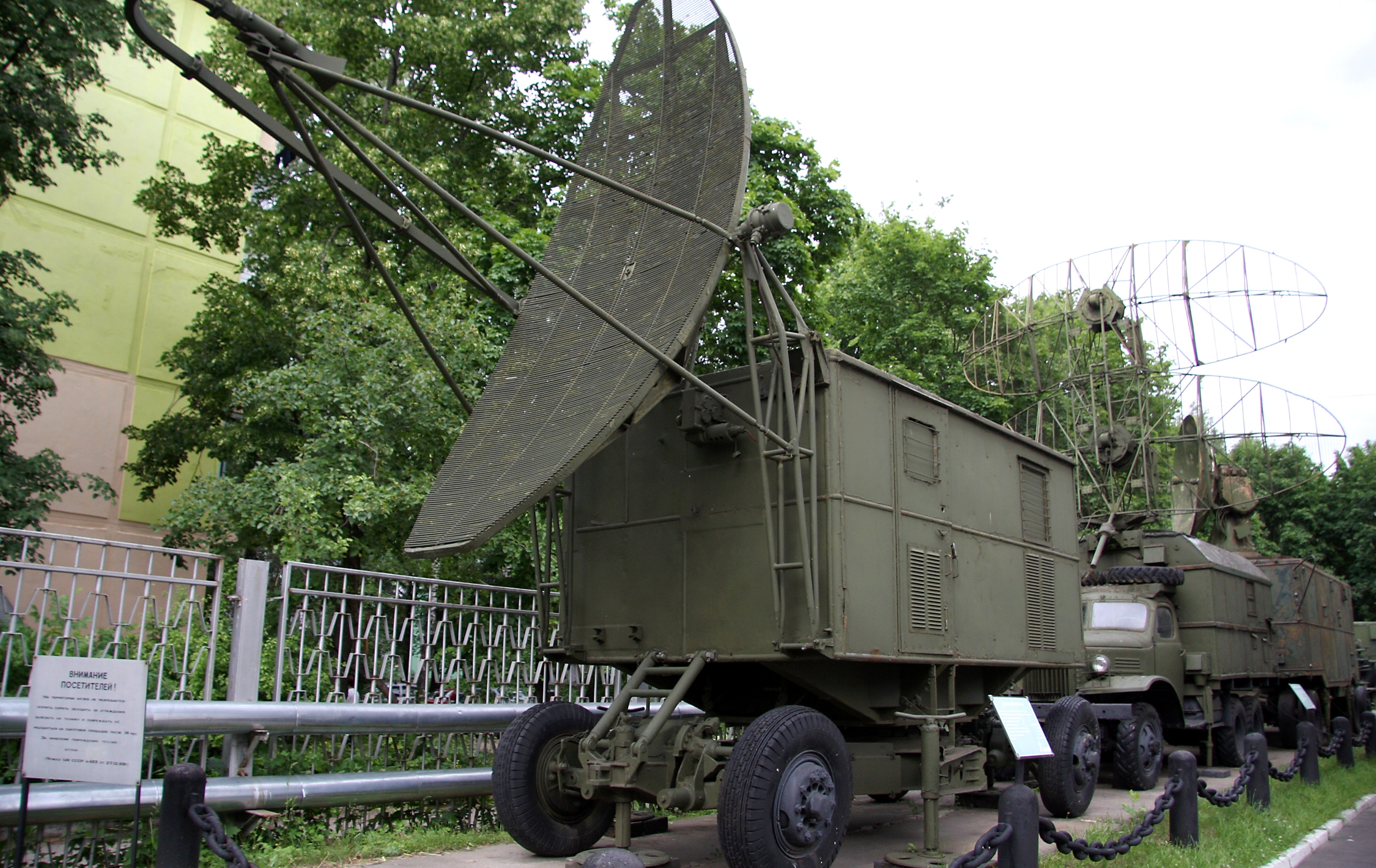 Air Defense History Museum in Zarya in Moscow Oblast.